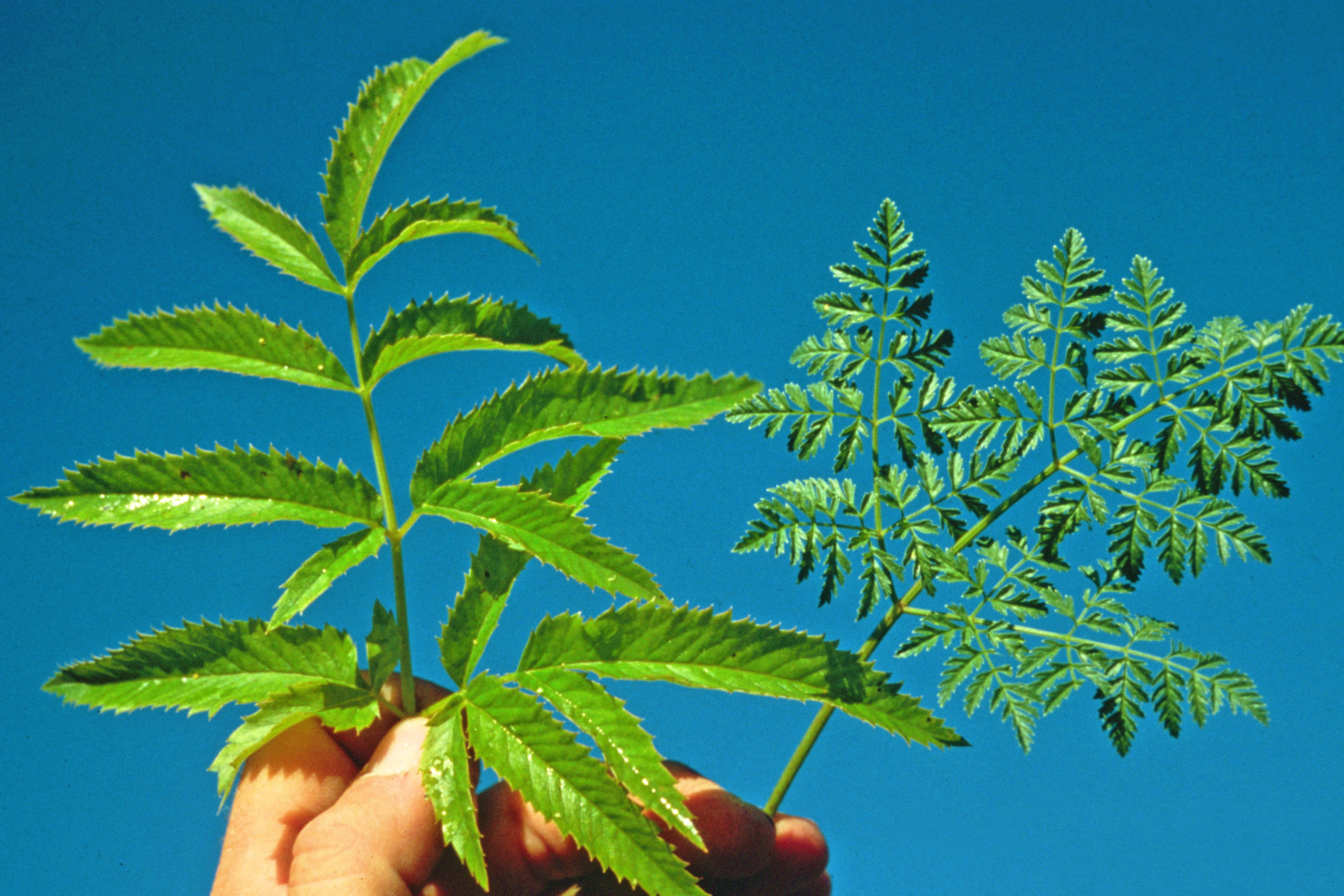 western water hemlock & poison-hemlock Cicuta douglasii (DC.) Coult. & Rose & Conium maculatum L. Descriptor: Foliage Description: the leaf on the right is from poison hemlock (Conium maculatum), and the leaf on the left is from western water hemlock (Cicuta douglasii). Image type: Field Image location: United States